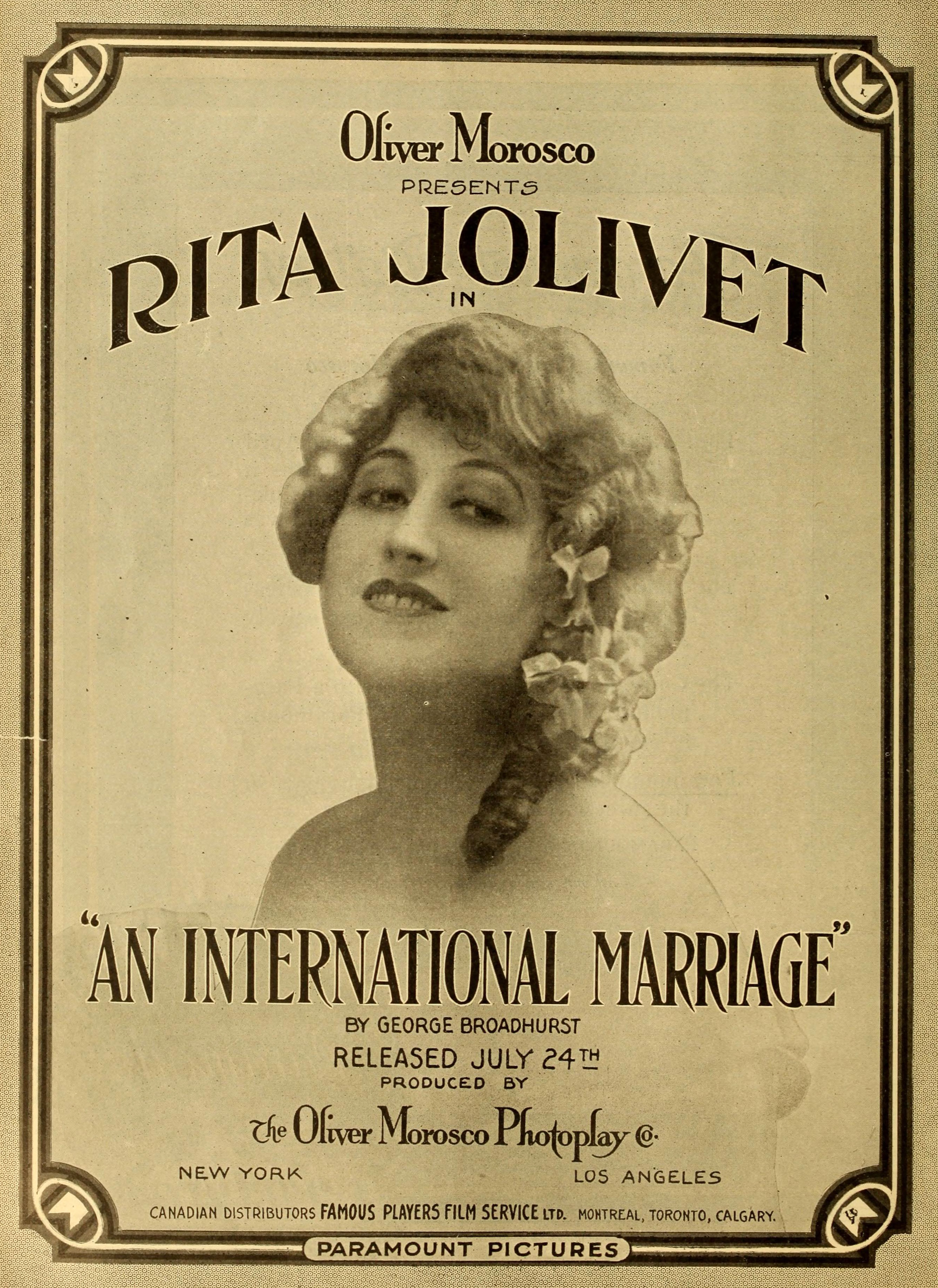 Advertisement in the Moving Picture World for the film An International Marriage (1916).